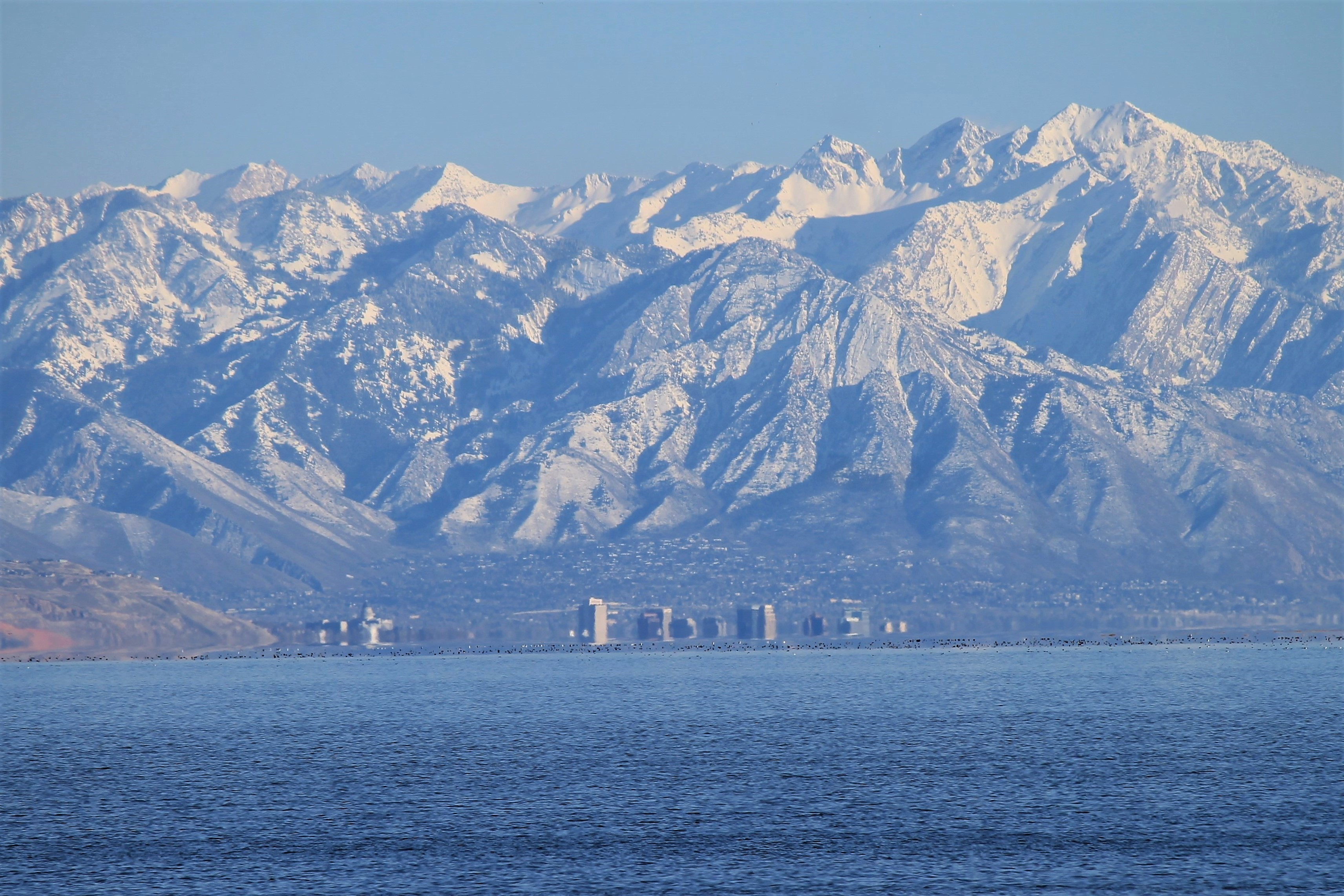 This is a photo of Salt Lake City and the Wasatch Front seen from Antelope Island State Park. The waterfront is the Great Salt Lake.